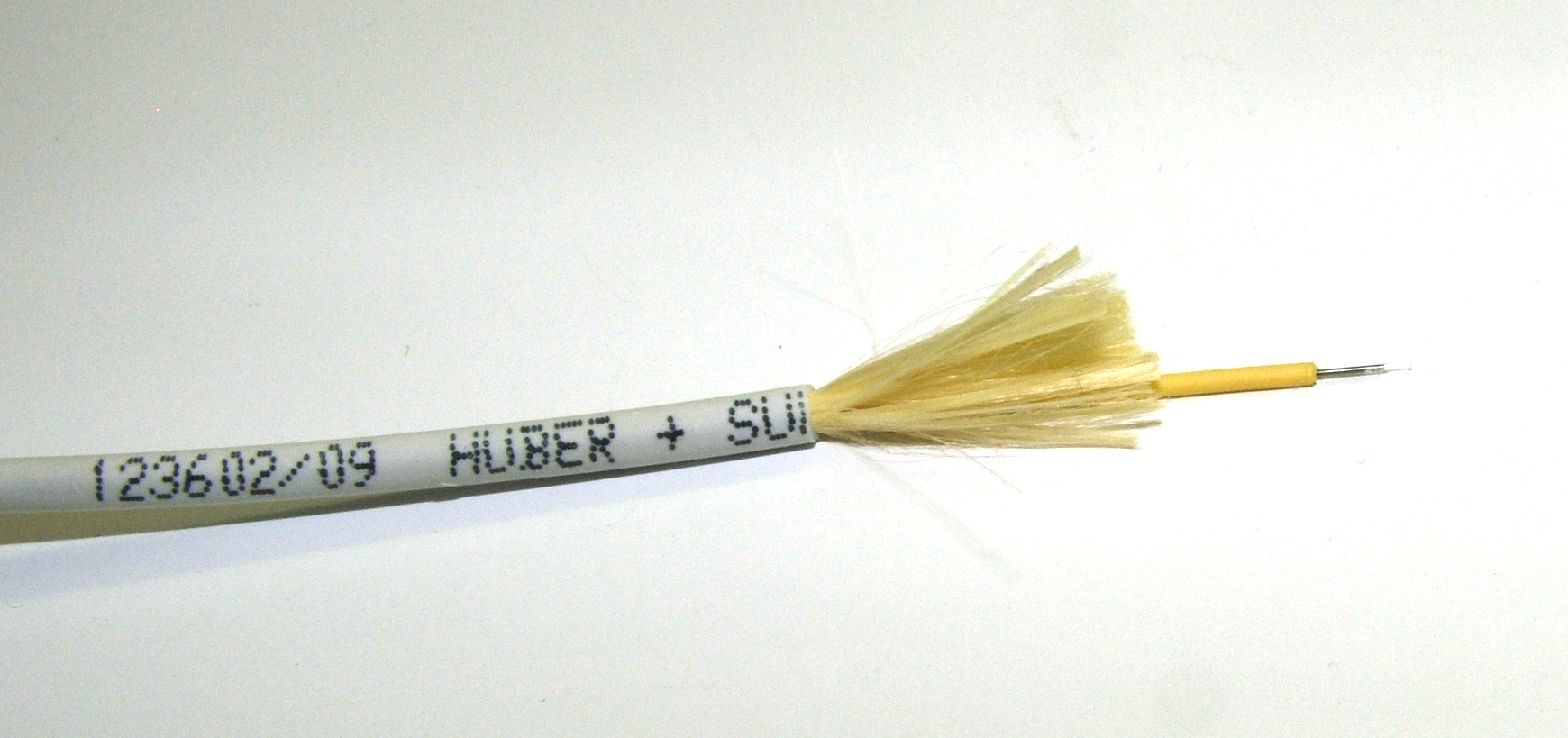 Photo : singlemode fibre